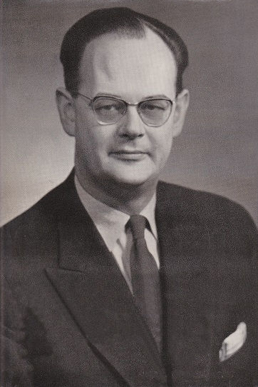 Viggo Kampmann (21 July 1910–3 June 1976) was the leader of the Danish Social Democrats and Prime Minister of Denmark from 19 February 1960 until 3 September 1962.